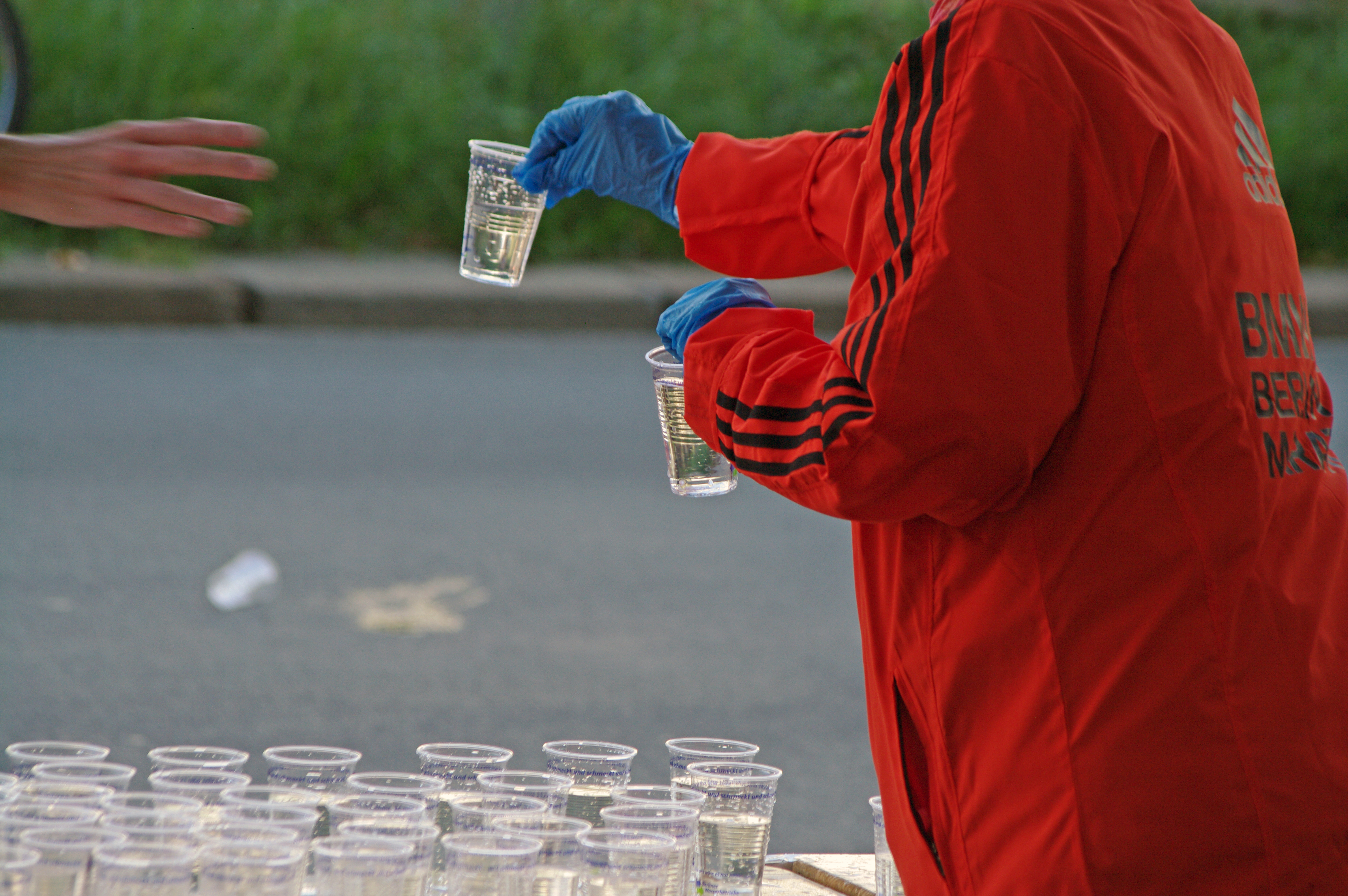 Drinking water for the runners of the Berlin Marathon 2011. Kilometer 35, Kleiststraße.